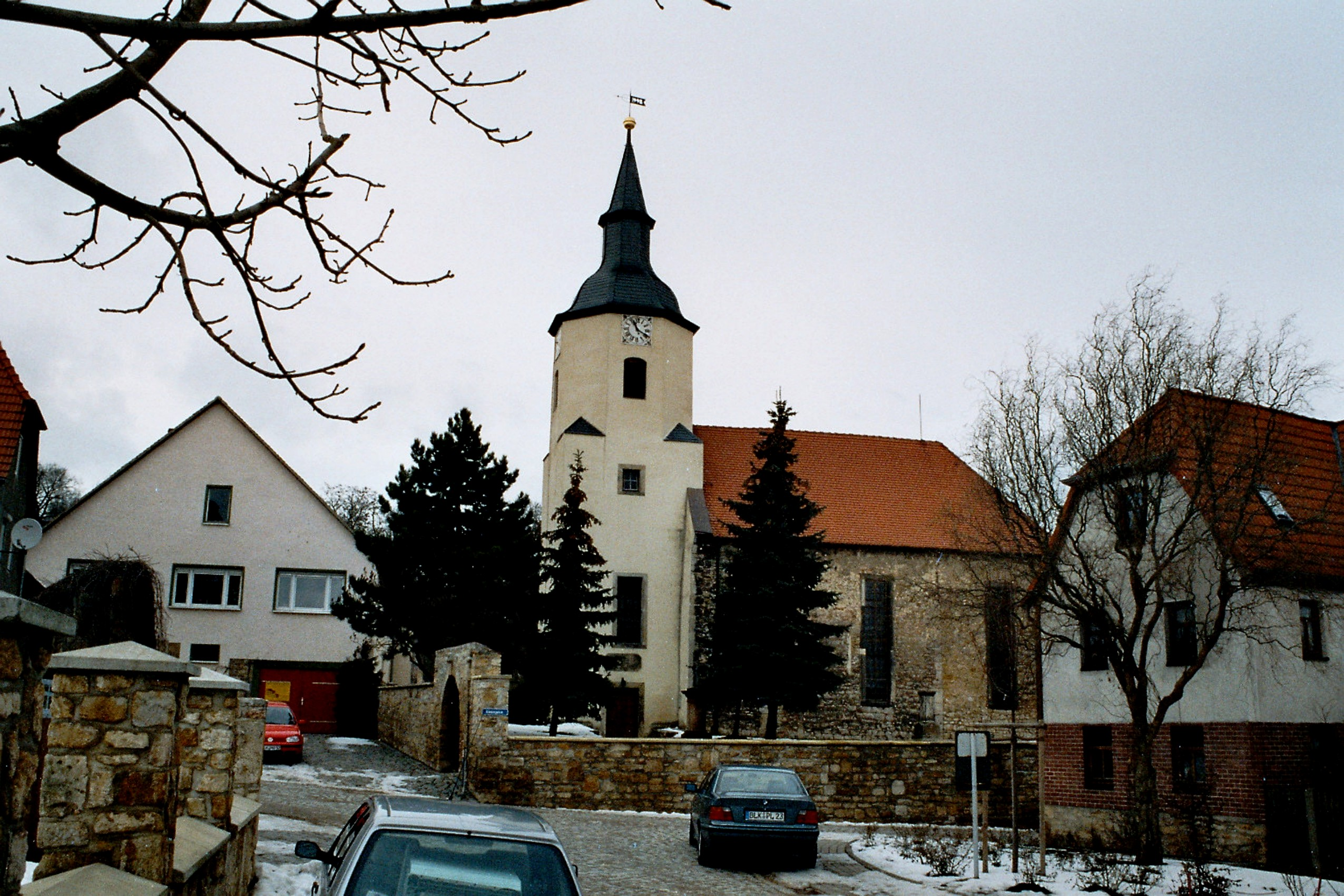 The village church in Priessnitz